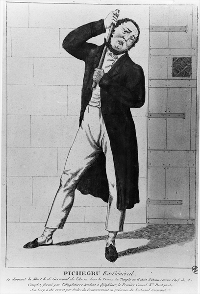 CHT163734 General Charles Pichegru (1761-1804) strangling himself in the Temple (engraving) (b/w photo) by French School, (19th century); Musee de la Ville de Paris, Musee Carnavalet, Paris, France; ( .: Pichegru se donnant la mort dans la prison du Temple; conspirator in the Cadoudal Affair; a plot to depose Napoleon Bonaparte (1769-1821);); Archives Charmet; French, out of copyright